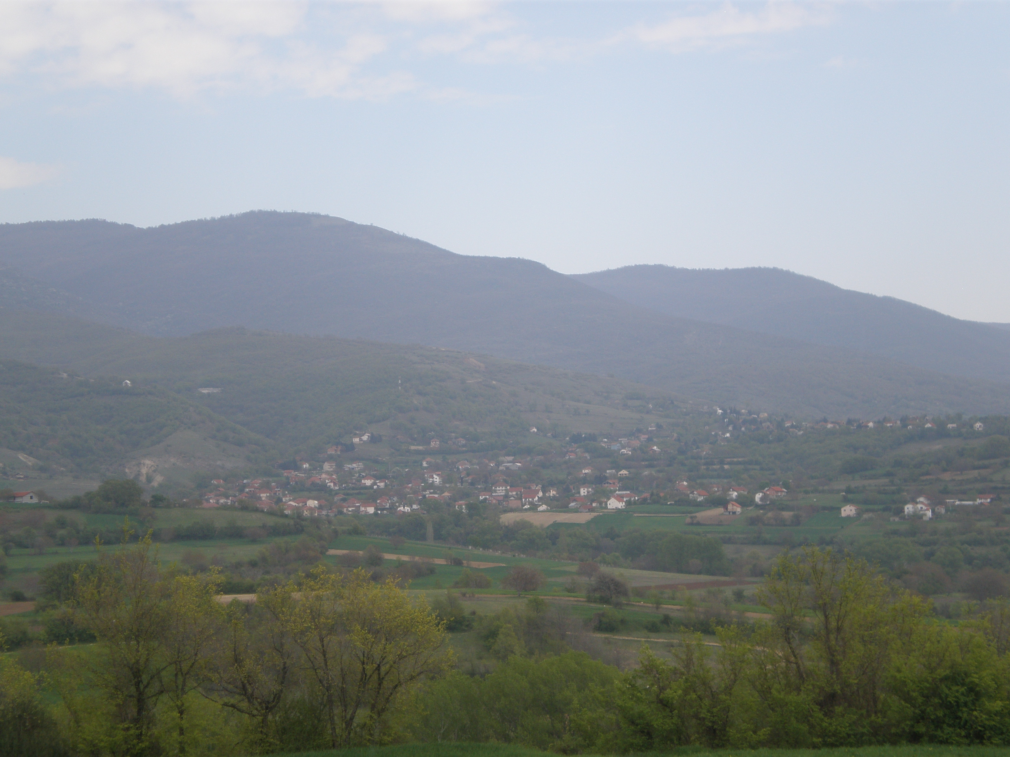 village of Ljubanci, Macedonia